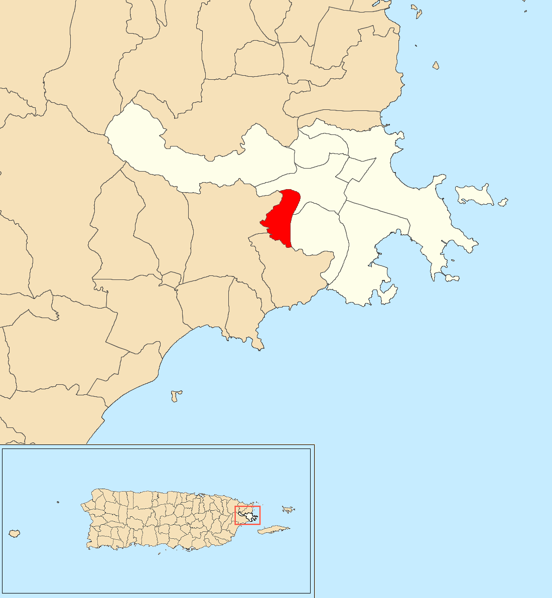 Daguao, Ceiba, Puerto Rico locator map